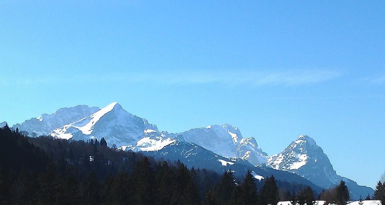 Northern Wetterstein, view from east: Hochblassen, Alpspitze, Zugspitze, Riffelscharte, Waxenstein (from left)